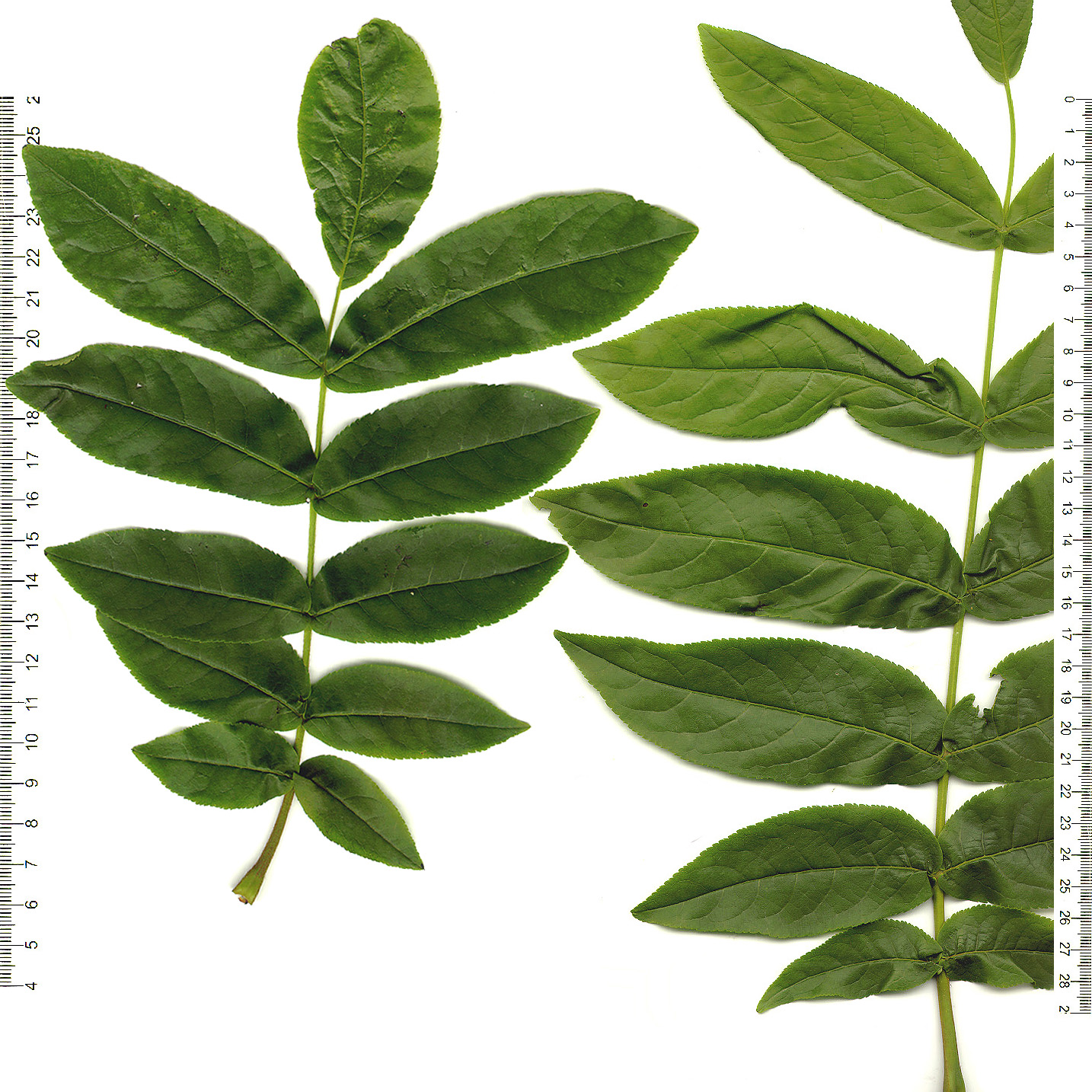 Pterocarya fraxinifolia, leaf